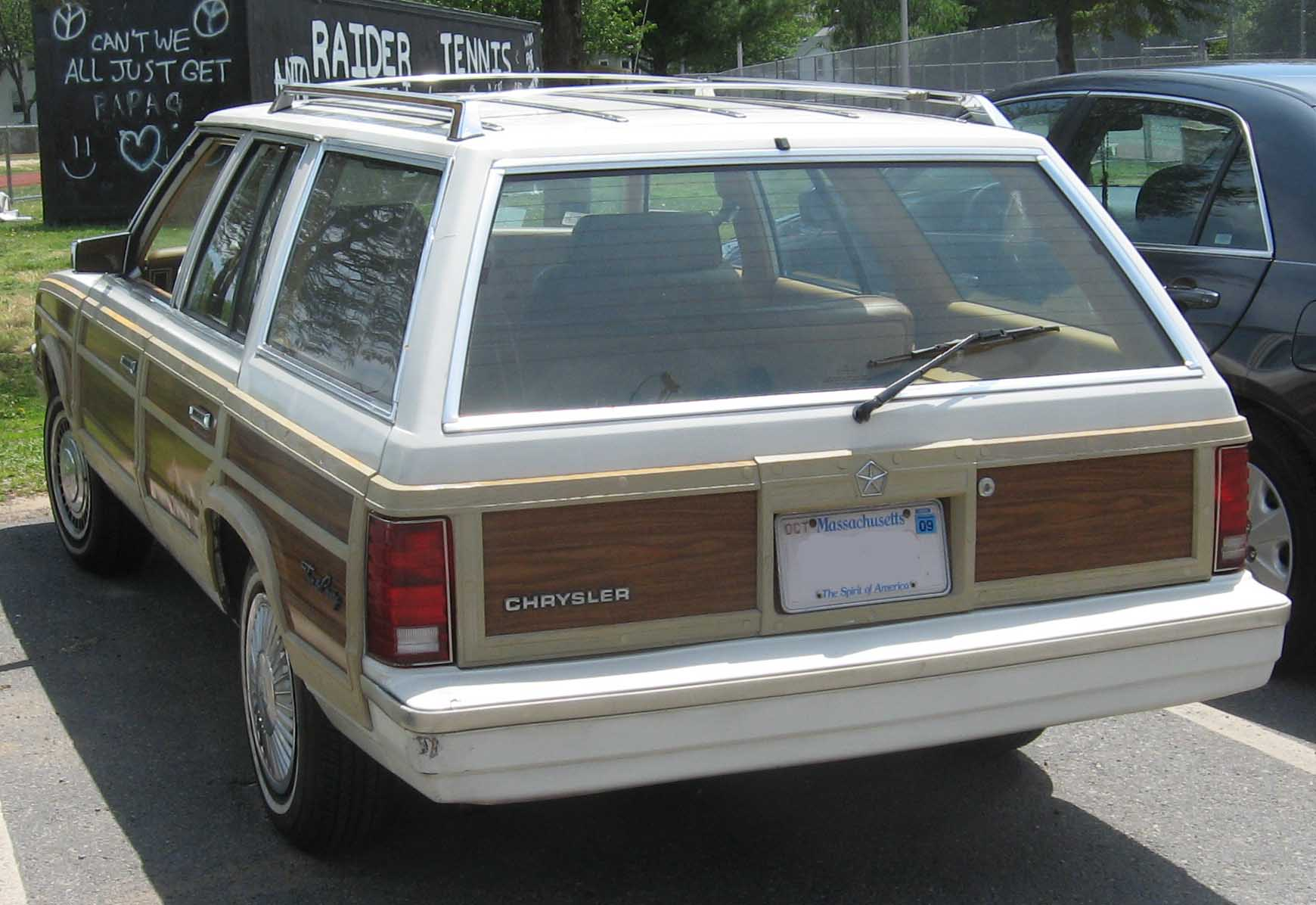 1982-1988 Chrysler Town and Country photographed in Watertown, Massachusetts, USA.